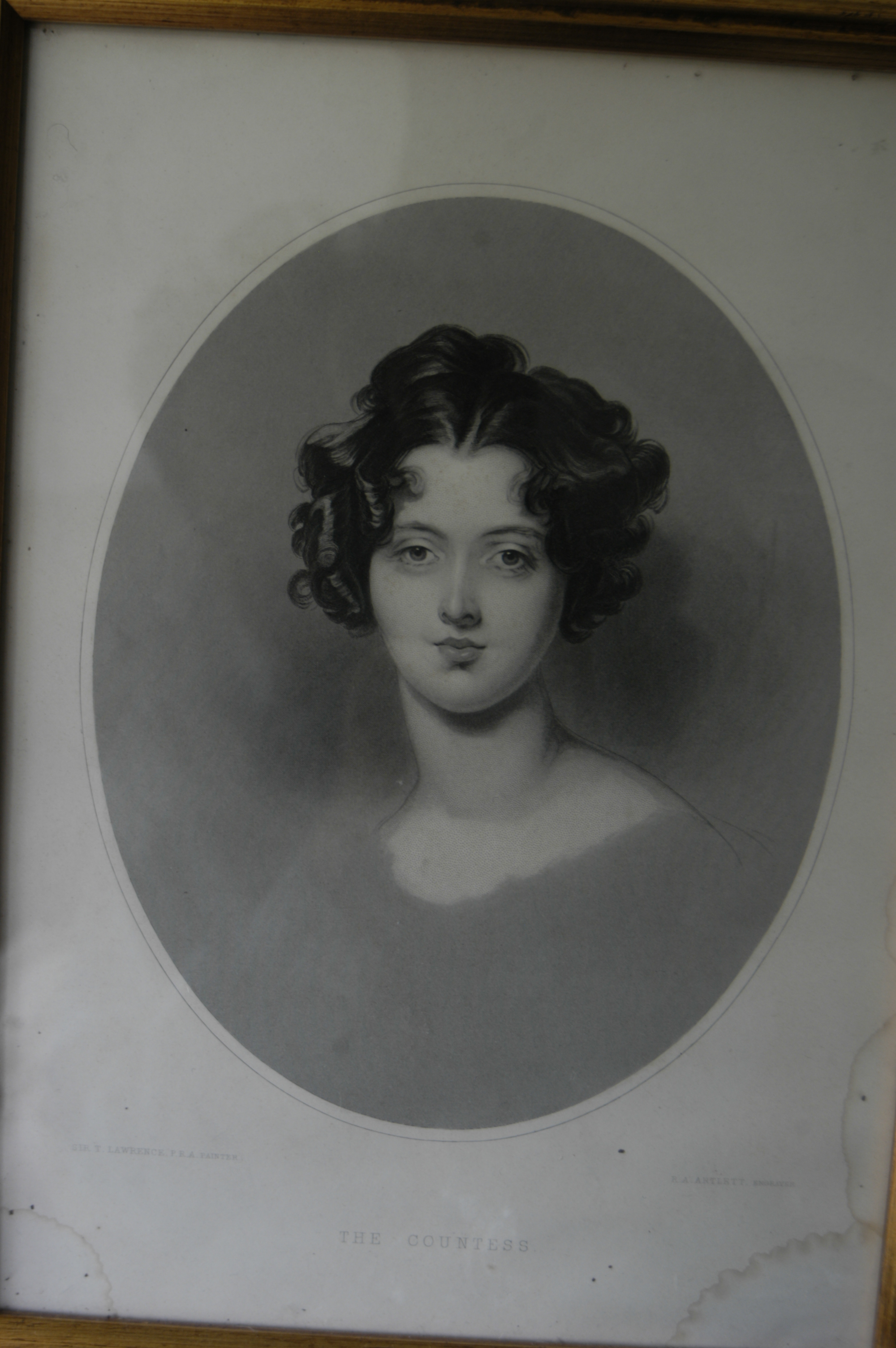 My photo (R. de Salis, Rodolph (talk) 23:40, 28 May 2014 (UTC)), an engraving by Arlett, after Sir Thomas Lawrence, of Countess of Darnley, aka Hon. Emma Jane Parnell, (wife of 5th Earl of Darnley). Other information original is in Tate Britain, see Size = 9 x 12 1/2 inches